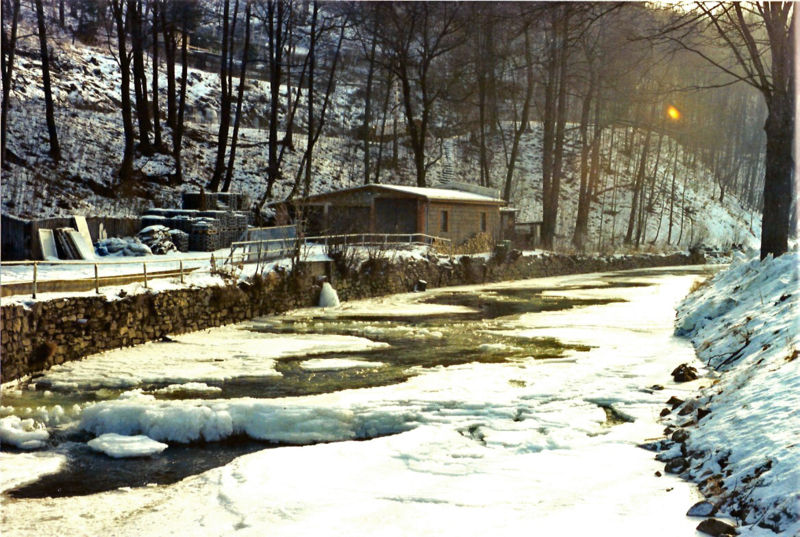 The river Schwarzwasser that flows through Schwarzenberg in Saxony.